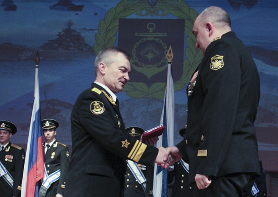 Vice-Admiral Victor Nikolayevich Sokolov, deputy of the Northern Fleet commander, presented state awards to military personnel of the fleet at a ceremony in Severomorsk on the day of the Defender of the Fatherland.